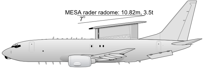 Side sketch of B737 AEW&C "Wedgetail" with English spec.